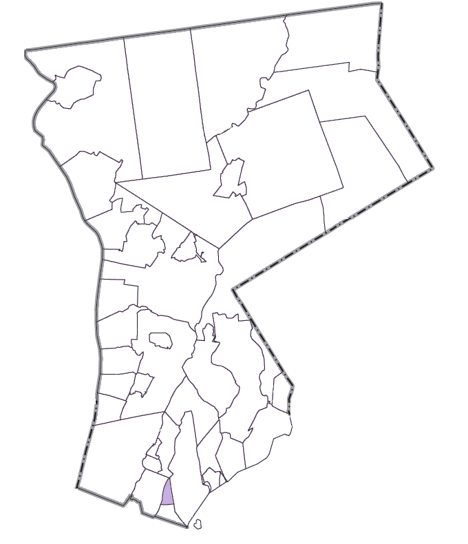 Map of Westchester highlighting Pelham